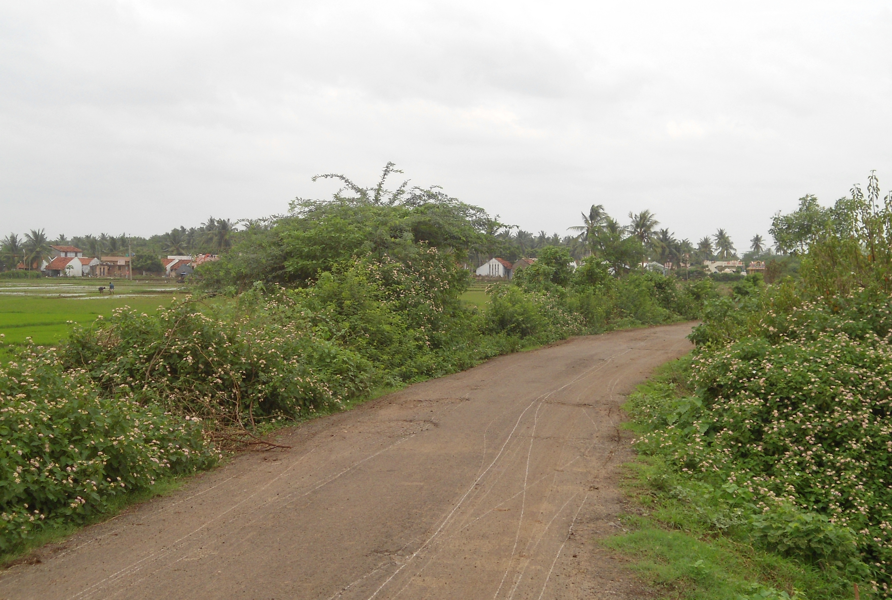 Rural road to Nemam Village near Kakinada in East Godavari district